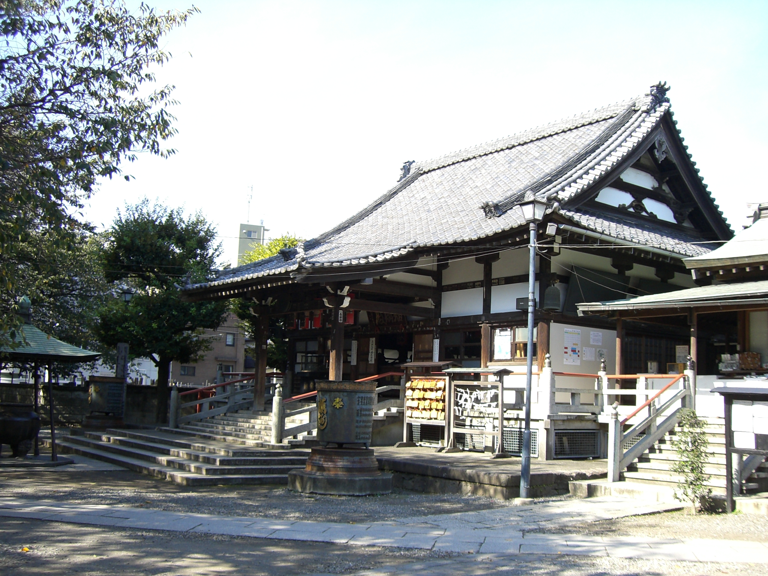 Araiyakusi-ji at nakano,Tokyo at : 2005-10-25 by : Suisui